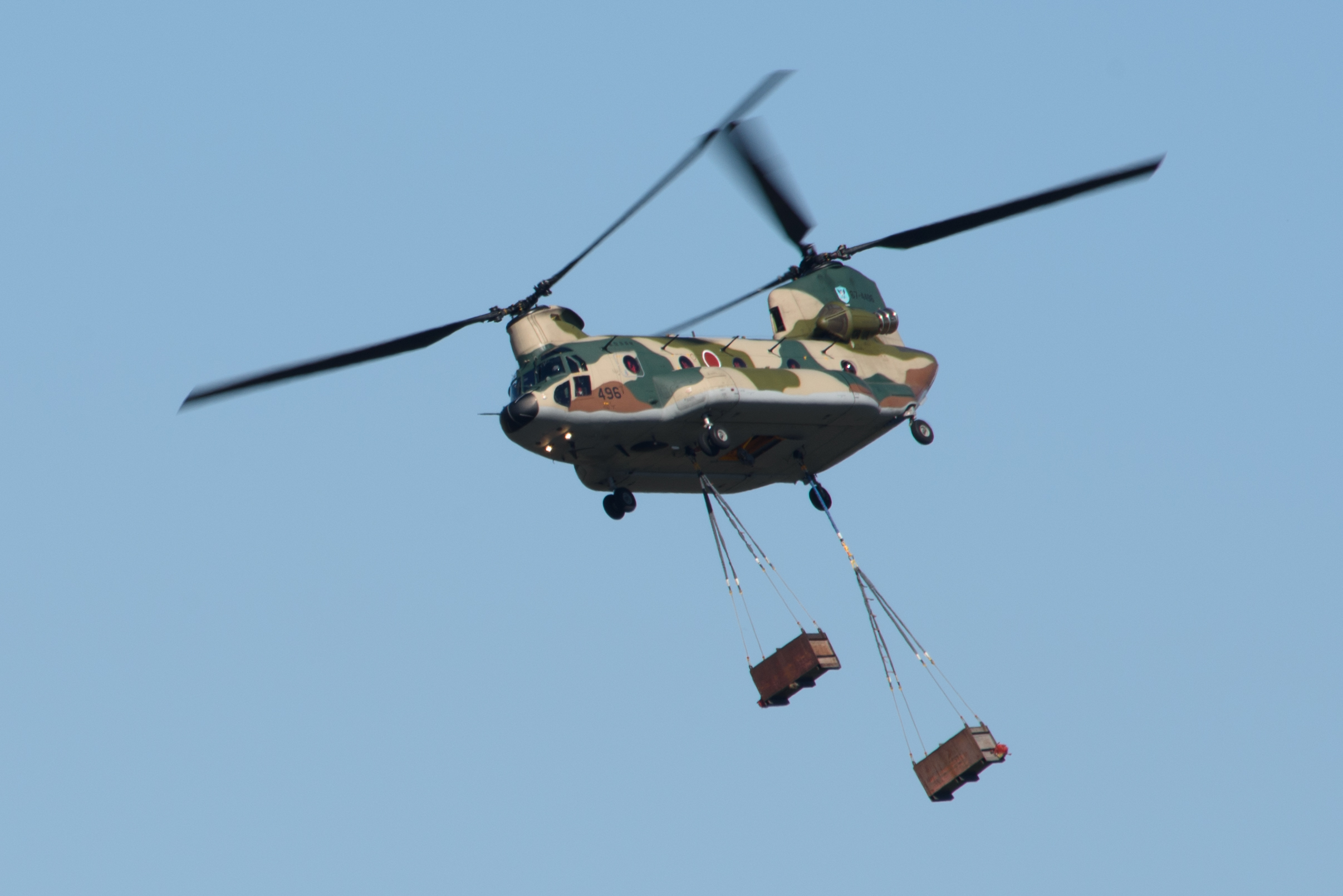 Iruma Air Base Festival 2015